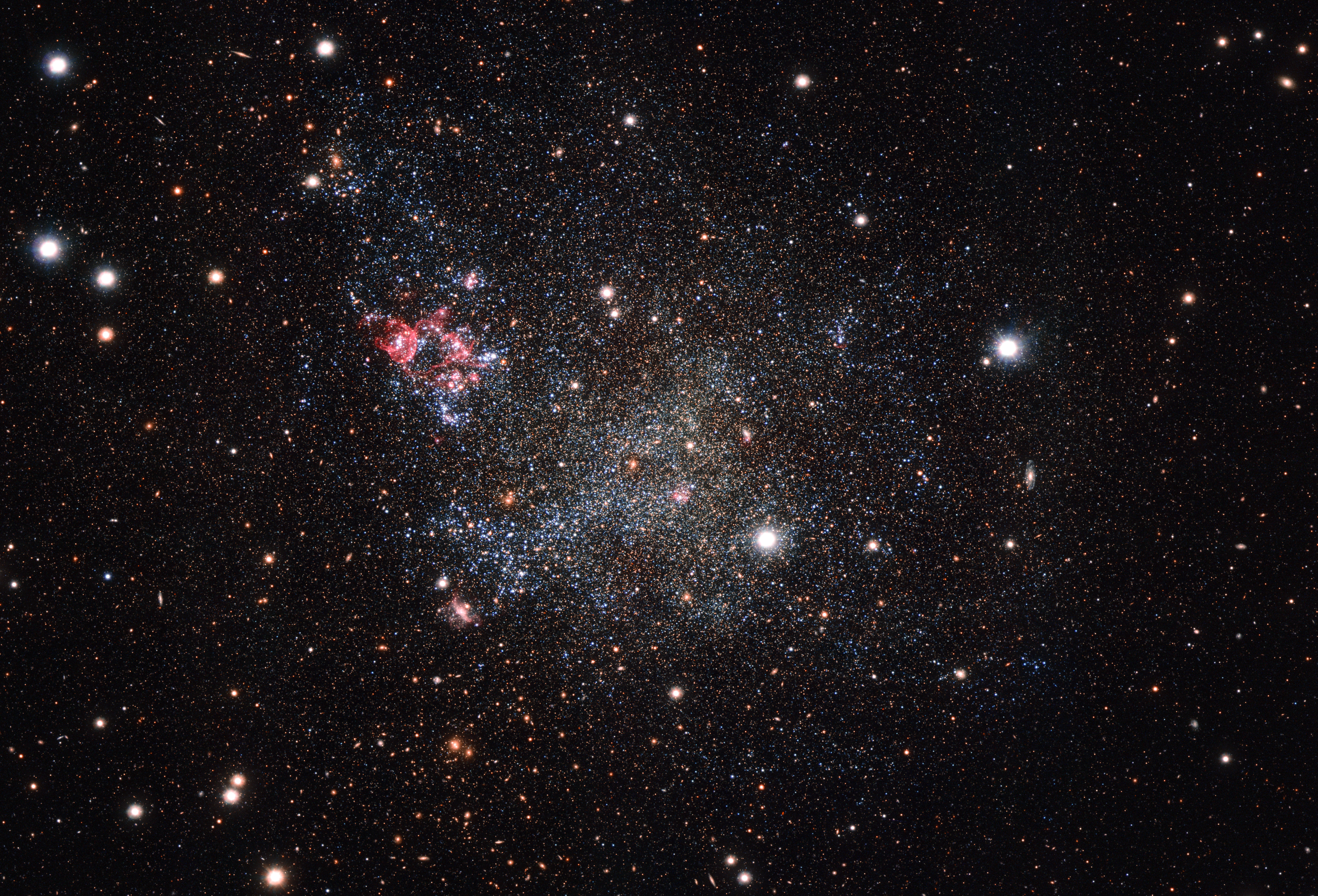 This image, captured with the OmegaCAM camera on ESO’s VLT Survey Telescope in Chile, shows an unusually clean small galaxy. IC 1613 contains very little cosmic dust, allowing astronomers to explore its contents with great clarity.